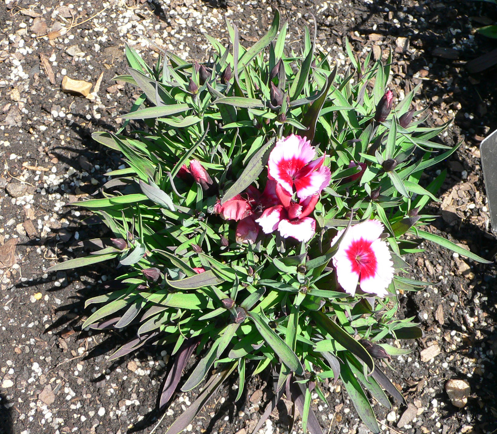 Pictures taken by myself at Longwood Gardens